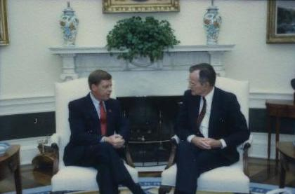 PRESIDENT BUSH MEETS WITH JOHNNY ISAKSON, GOP CANDIDATE FOR GEORGIA GOVERNOR. ED ROGERS IS PRESENT.